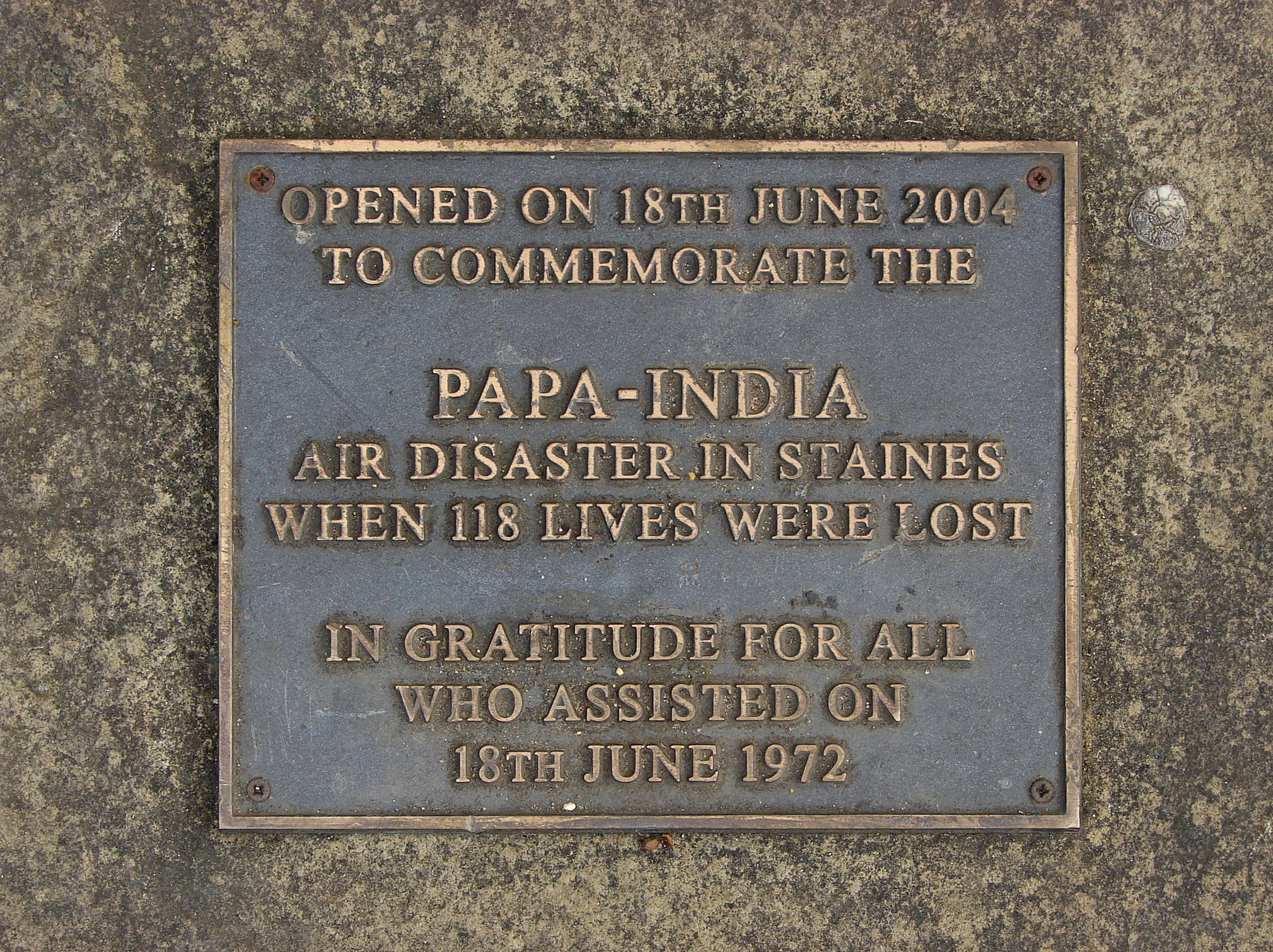 Plaque at the monument in Staines-upon-Thames, Surrey, to the 1972 Trident air crash